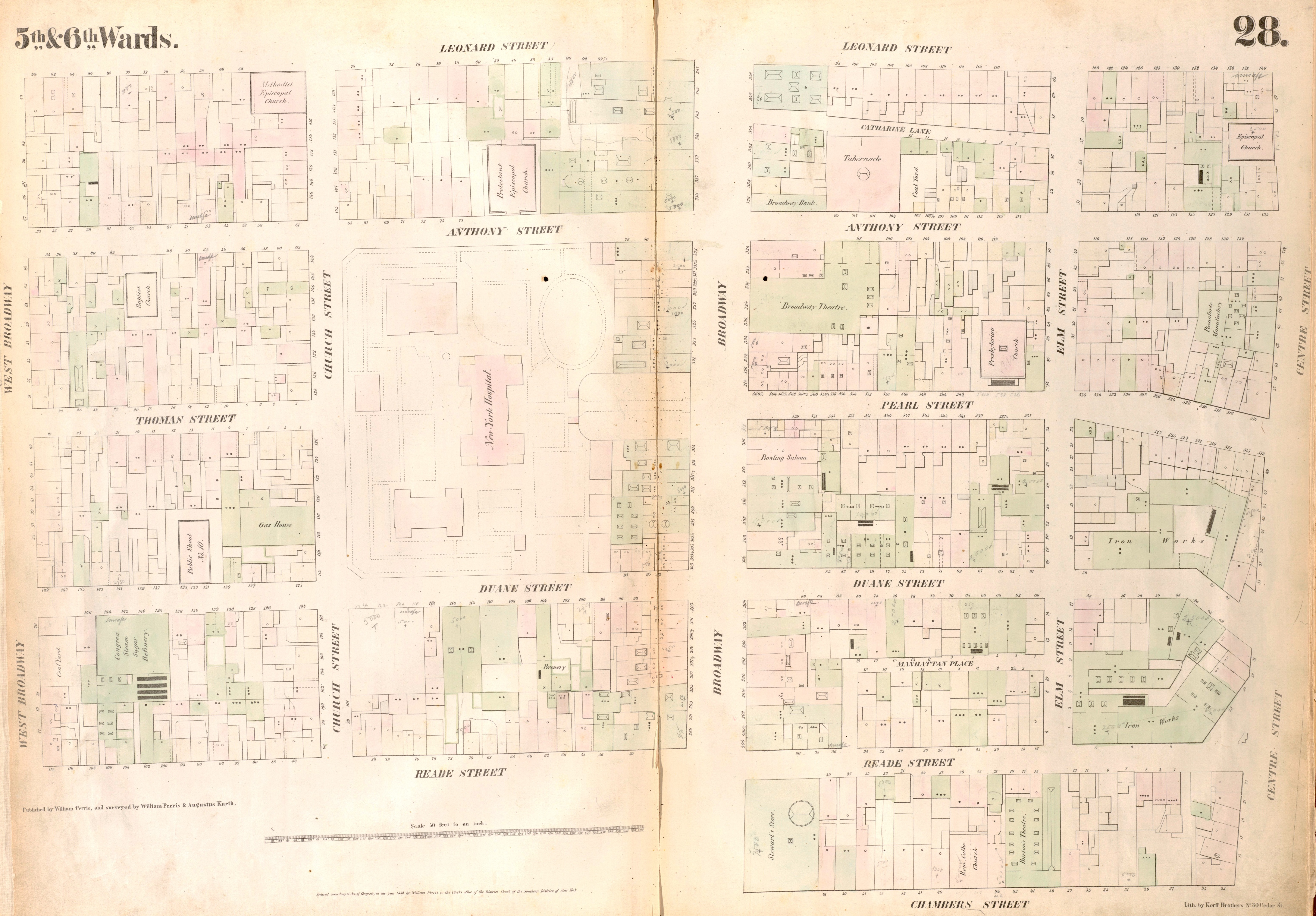 Plate 28 from: Perris, William. Maps of the City of New-York. Volume 3. (New York: William Perris, 1853) FOR KEY TO MAP SYMBOLS, CLICK HERE.